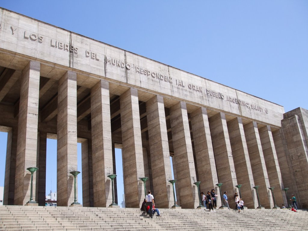 The Propylaeum (column gallery) of the National Flag Memorial (Monumento Nacional a la Bandera) in Rosario, Argentina, near the banks of the Paraná River.